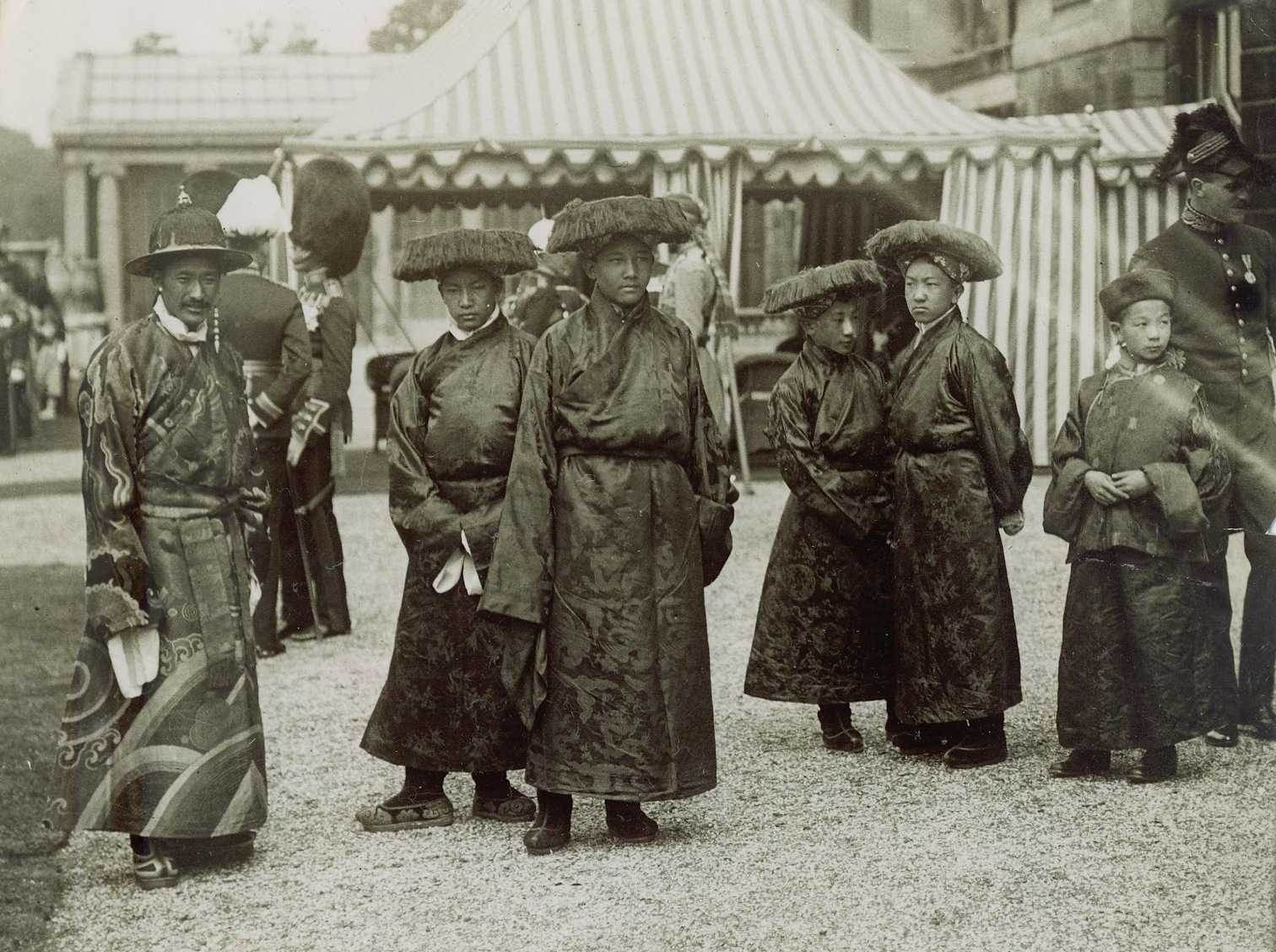 The King (George V) received Tibetans. The King received the distinguished Tibetans at present in the country this morning at Buckingham Palace. Our Picture shows the visitors in the grounds of Buckingham Palace after being presented.